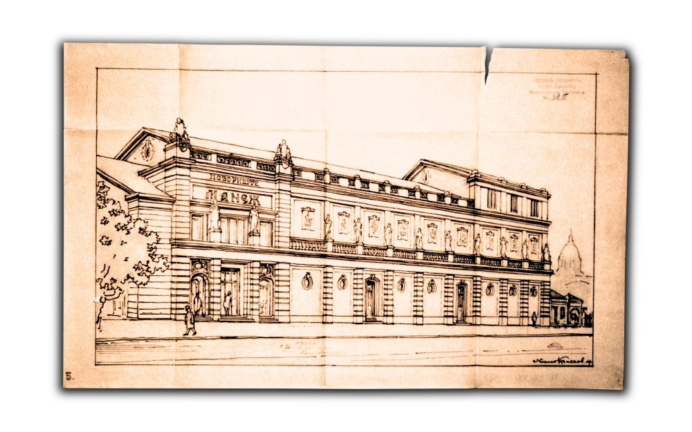 A blue print of the „Manjez“ Theatre compiled by Nikola Krasnov – appearanceCatalog number: SGB, 13-29-1948